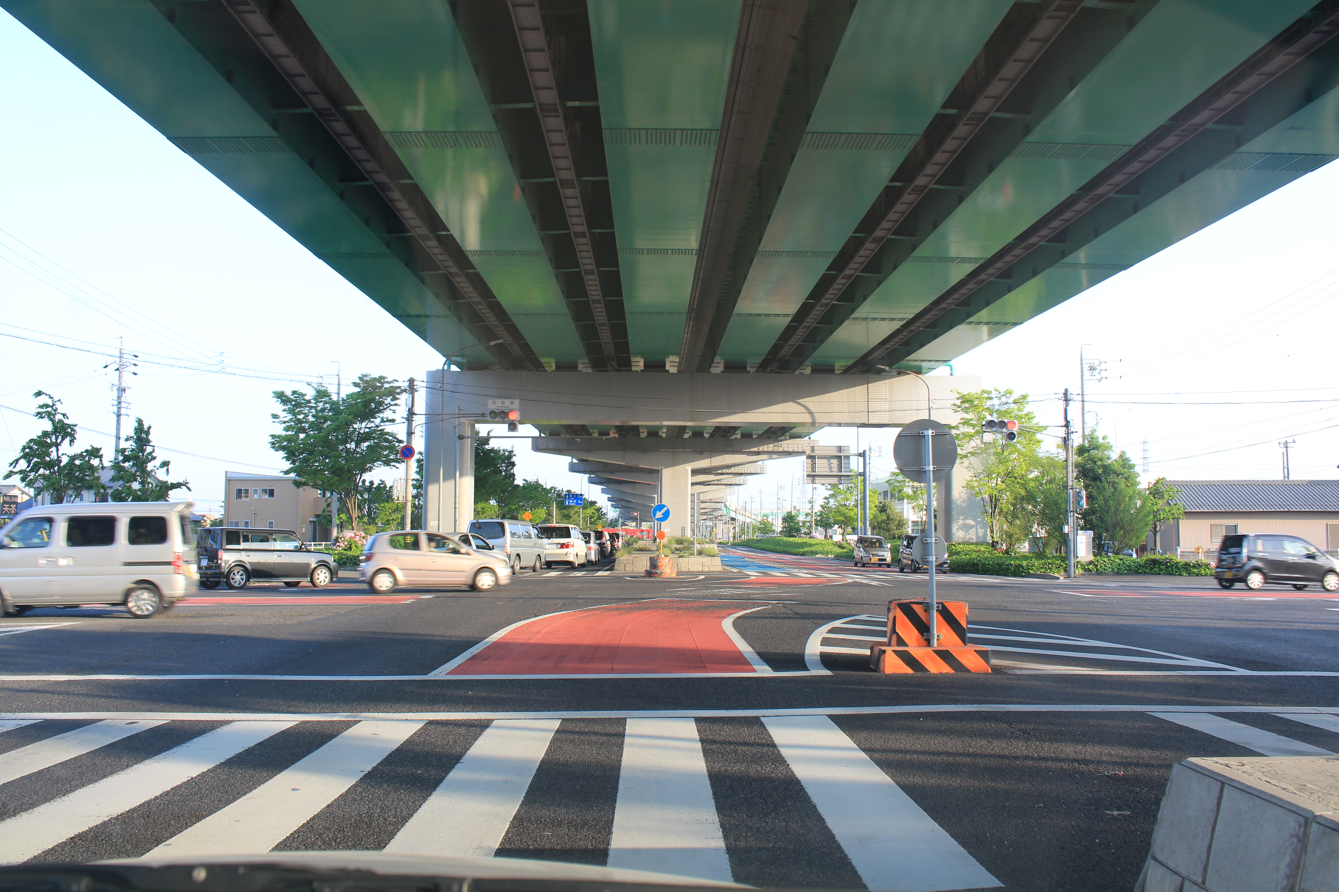 Aichi Prefectural Road 14 in Kariyasuka, Ichinomiya, Aichi prefecture, Japan.